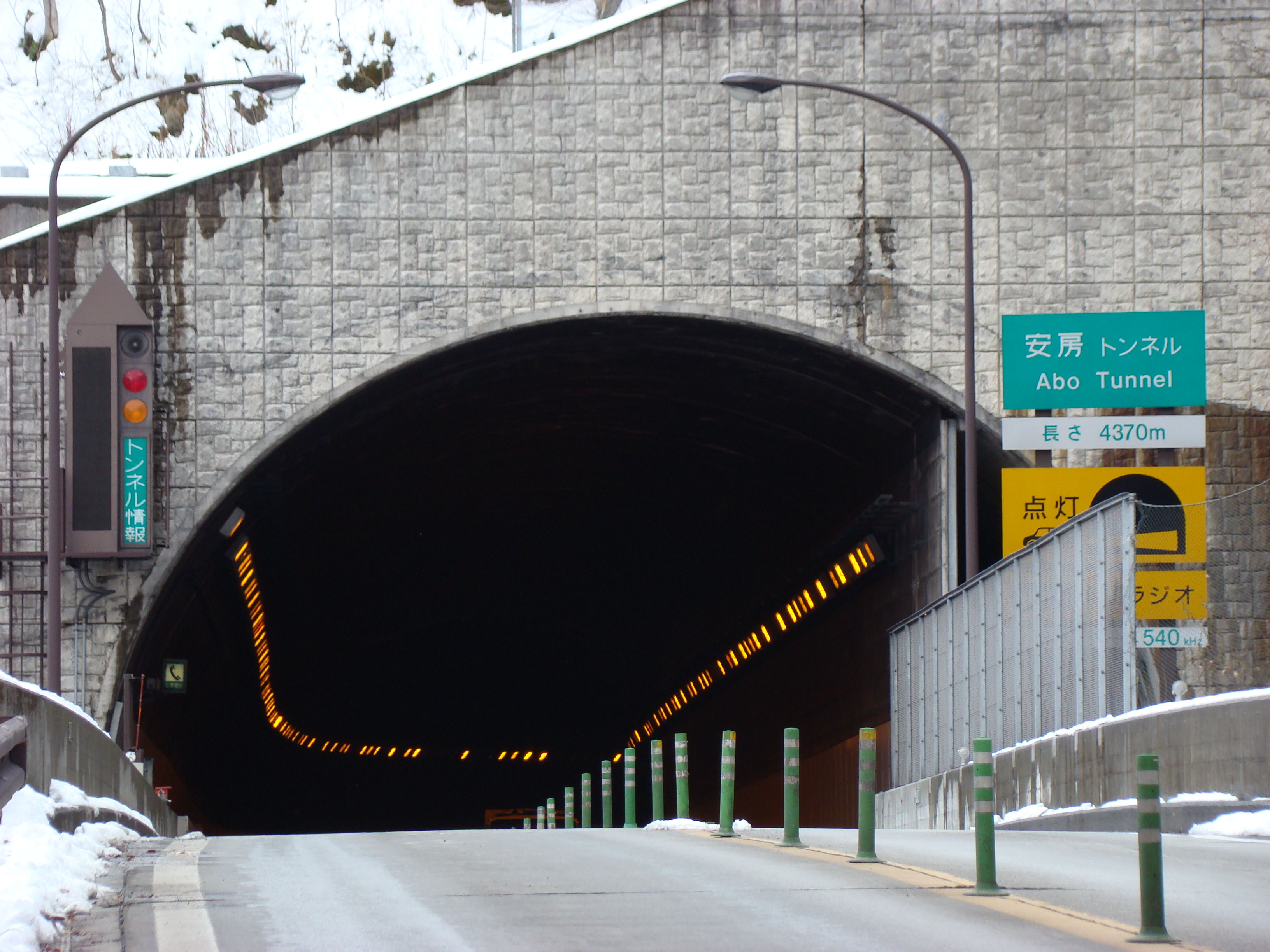 Abo Tunnel（Chubu Jukan Expressway,Route 158Abotougedouro） （“touge” means pass） Place - Azumi-Nakanoyu,Matsumoto City,Nagano Prefecture,Japan. Date - November 23, 2008 Format - JPEG, 3264x2448pixel, 24bit colors. Photographer - NALA_Wiki.